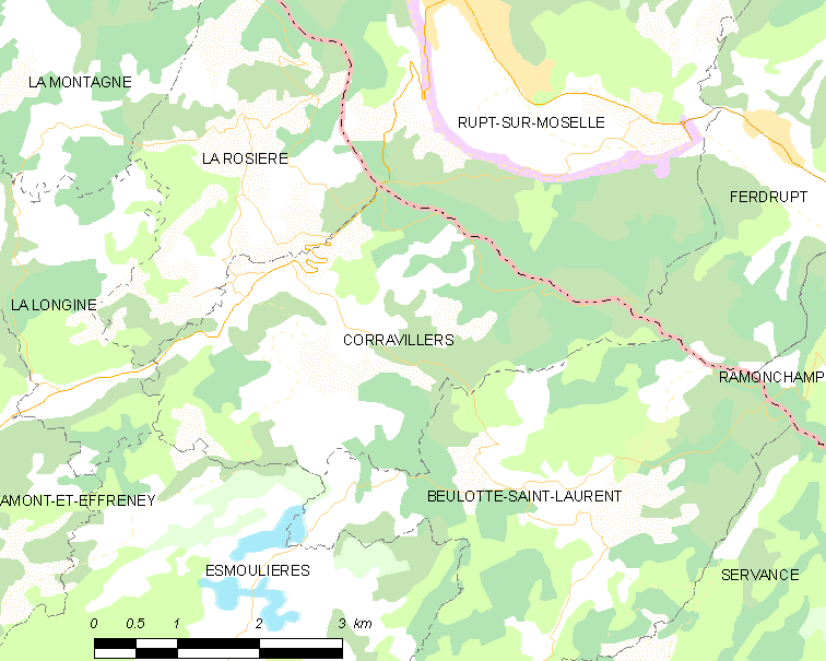 Map of French municipality